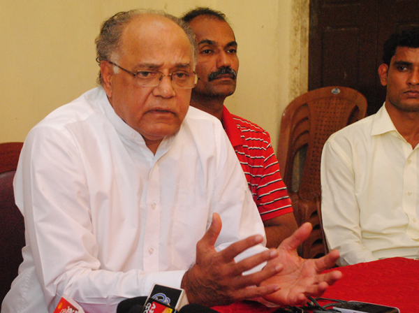 Justice M. F. Saldanha, head of his namesake Saldanha Commission which investigated the attacks on Christians in southern Karnataka on September 2008.